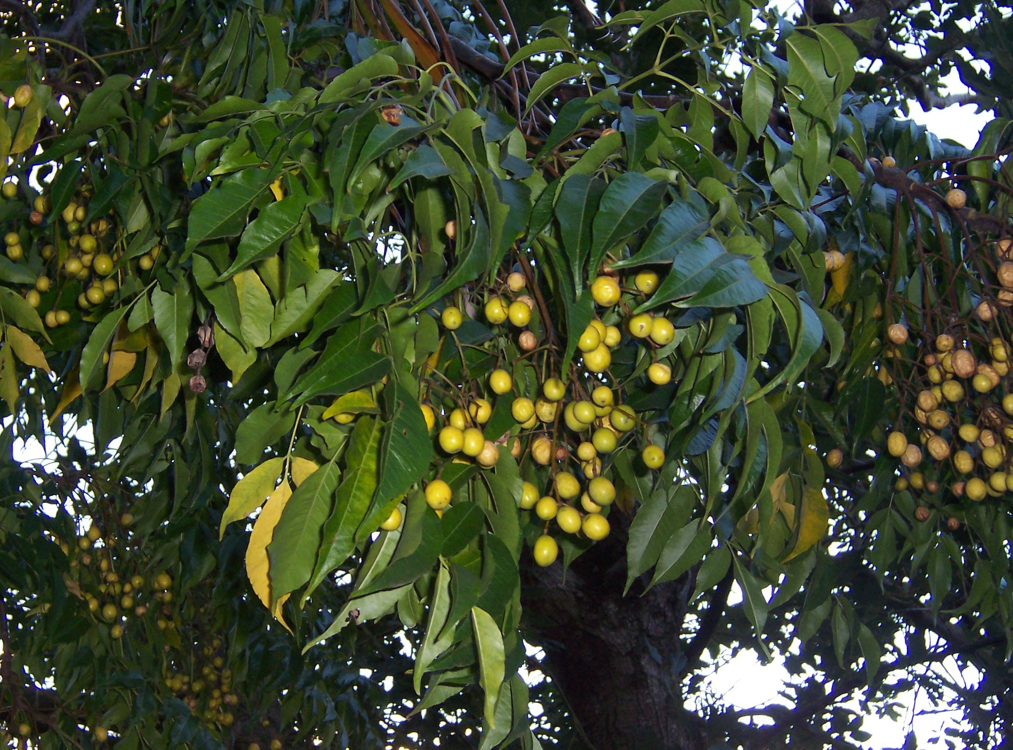 Melia azedarach(fruits) - picture taken on Réunion island